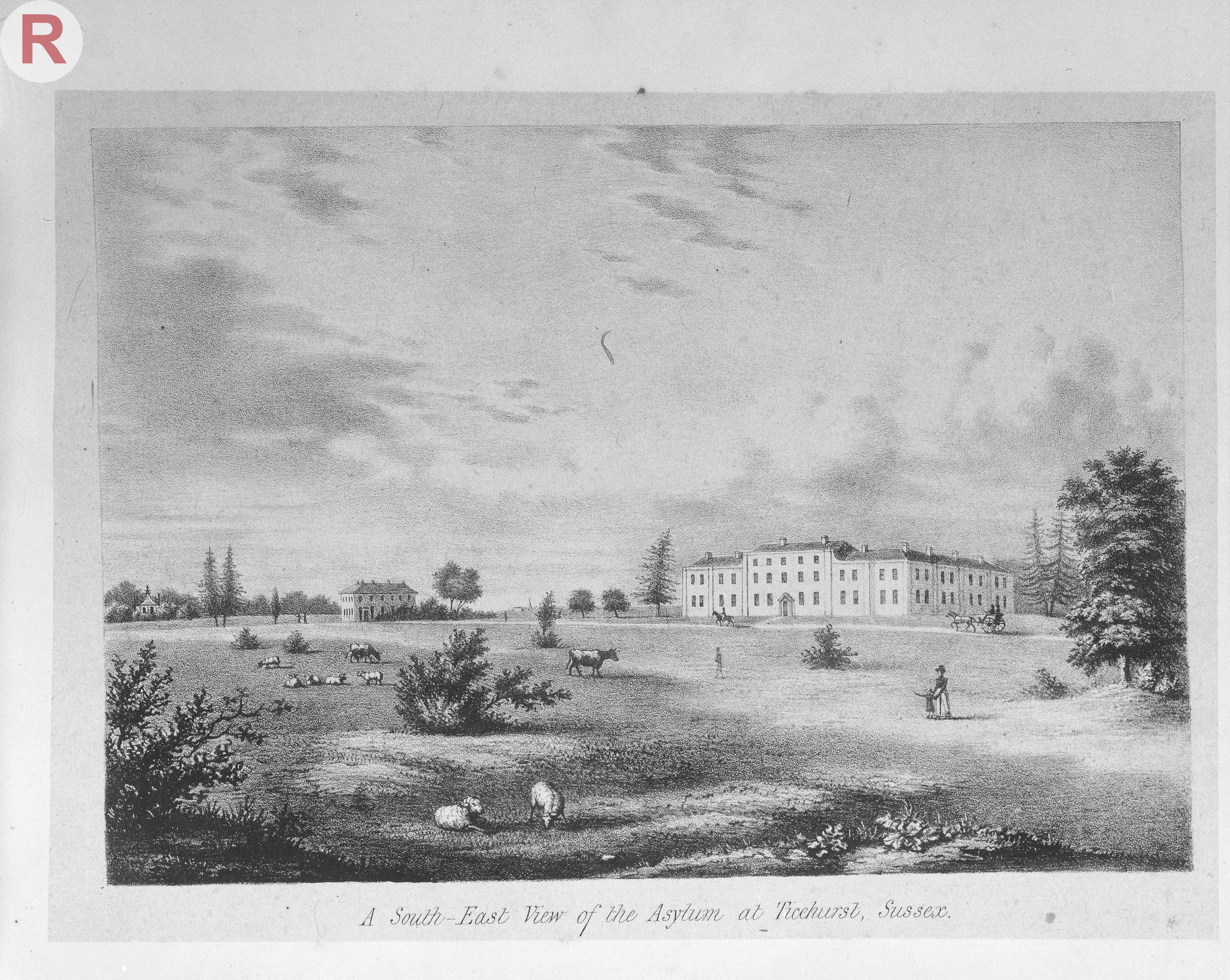 CMAC: Western Manuscript 6783 Archive and Manuscripts Collections Ticehurst House Hospital ('Private Asylum for Insane Persons') Plate: A South-East View of the Asylum at Ticehurst, Sussex, c.1828-29. Archives & Manuscripts Keywords: insane; ticehurst; cmac: wms 6783; private; MENTAL ILLNESS; ms 6783; Psychiatry; ASYLUM